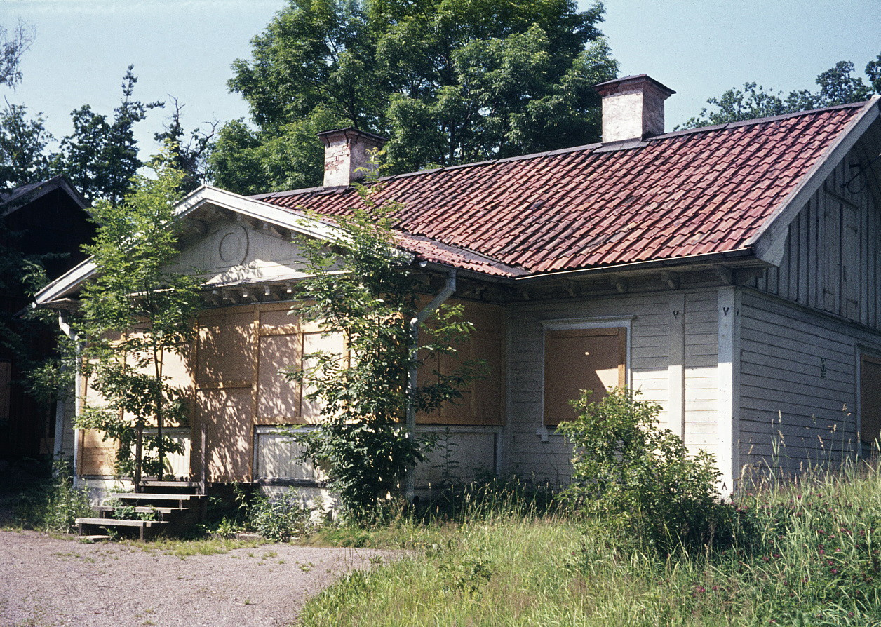 FOTOGRAFISlättens gård från söder. 1977-1977FOTOGRAF: Okänd.BILDNUMMER: DIA 26133Stadsmuseet i Stockholm